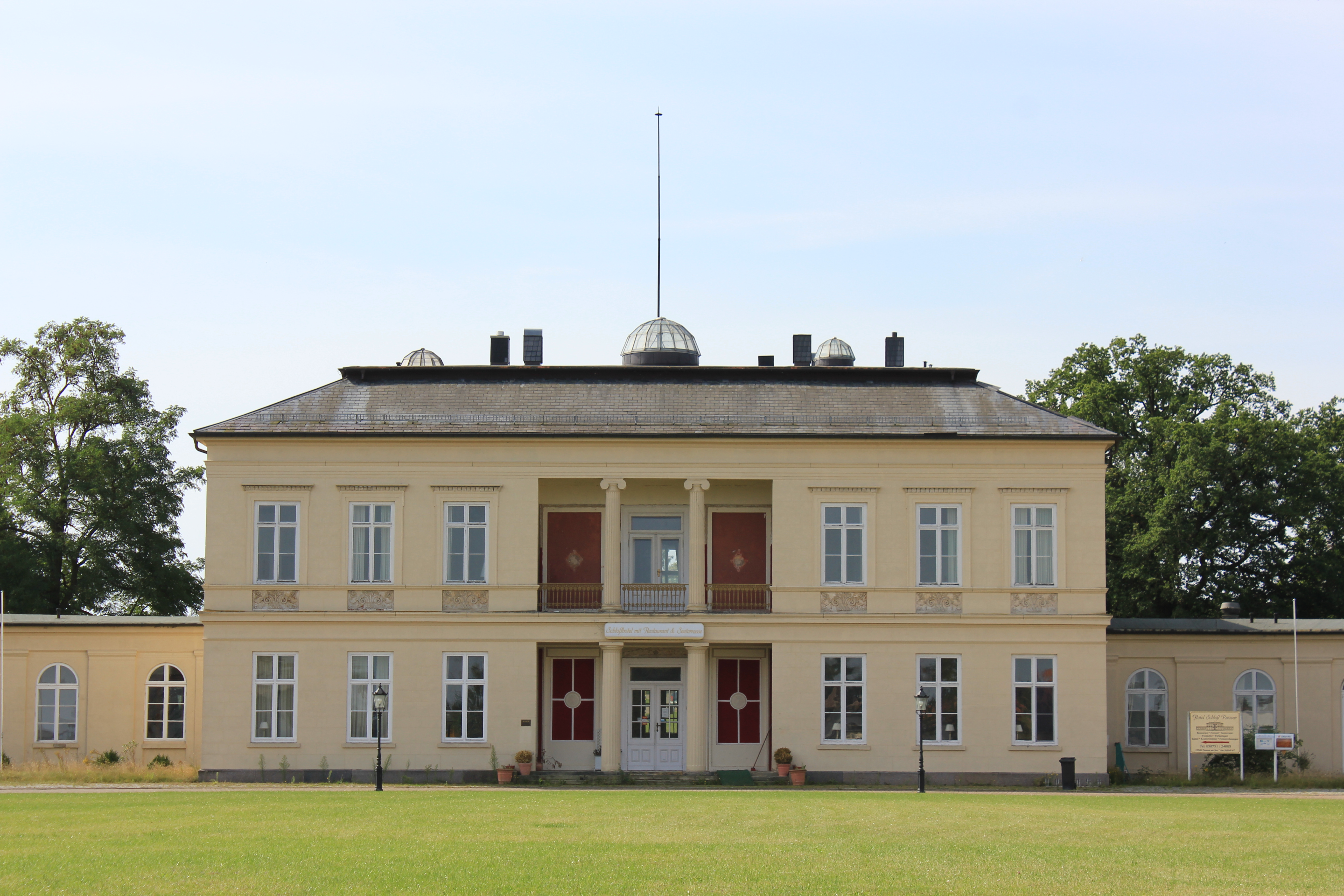 Neoclassical style Manor house — in Passow, state of Mecklenburg-Vorpommern, northern Germany.